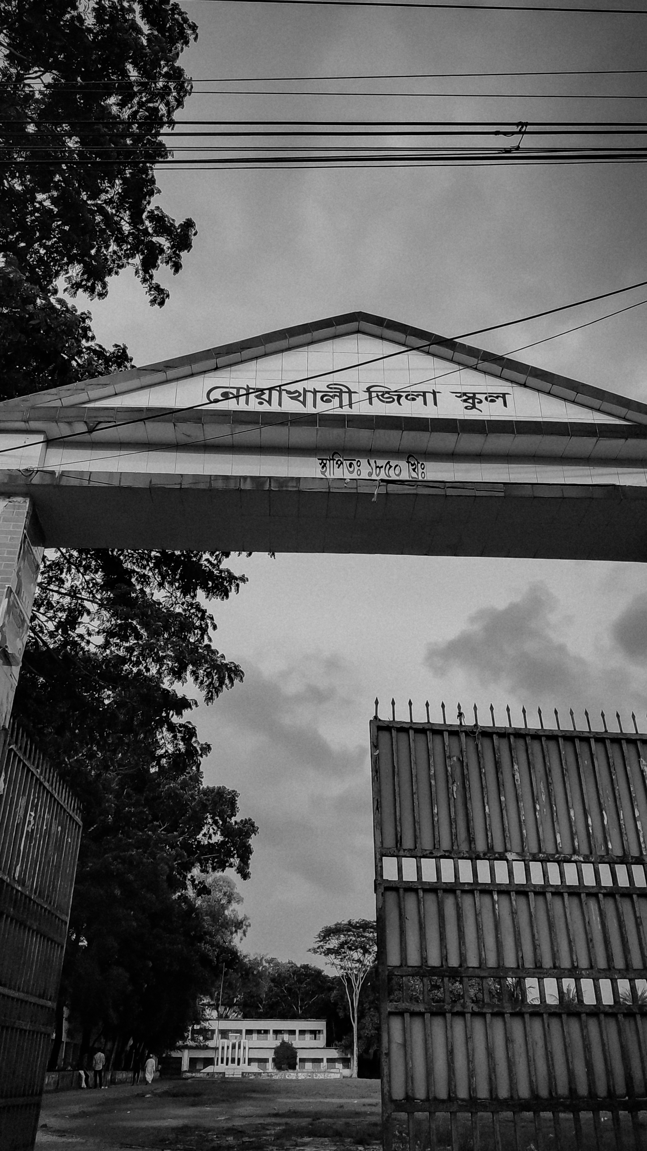 Noakhali Zilla.School